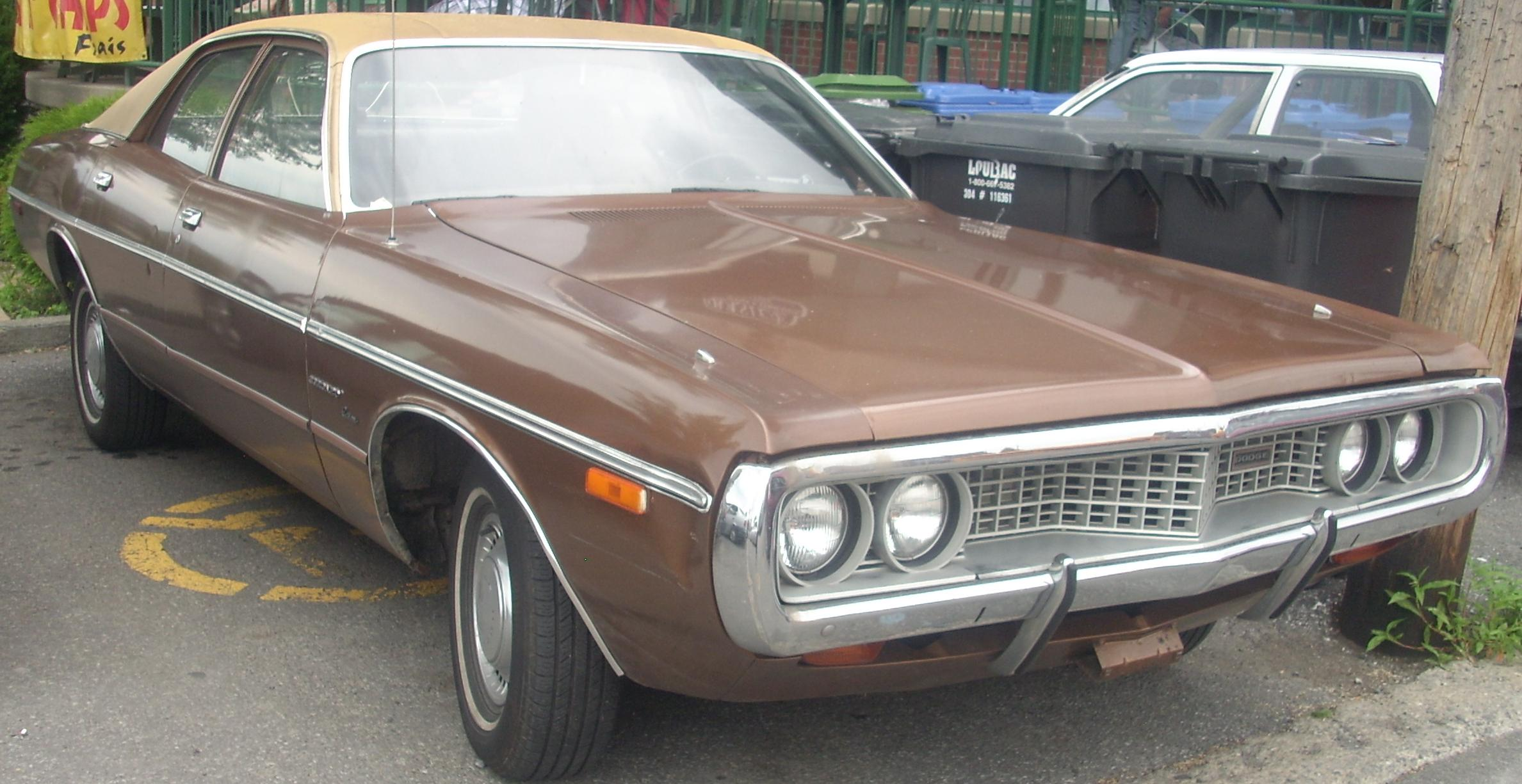 1972 Dodge Coronet Custom photographed in Ste. Anne De Bellevue, Quebec, Canada at Cruisin' At The Boardwalk 2010.